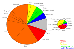 Global population distribution by region. Colours indicate broad regions while smaller divisions within these colours indicate subregions. "Other North America" refers to Greenland and St. Pierre & Miquelon. The division between Western and Eastern Europe follows the old Iron Curtain line, except that Greece is delegated to Eastern Europe. Iceland and Finland are included in Scandinavia. Arab West Asia includes Cyprus. Mauritania and Sudan are included in North Africa while Niger is included in West Africa and Chad is included as Central Africa. Rwanda & Burundi are included as East Africa. Southern Africa is Angola, Zambia, and Mozambique south. Central Asia includes Afghanistan, Nepal, Bhutan and Mongolia.